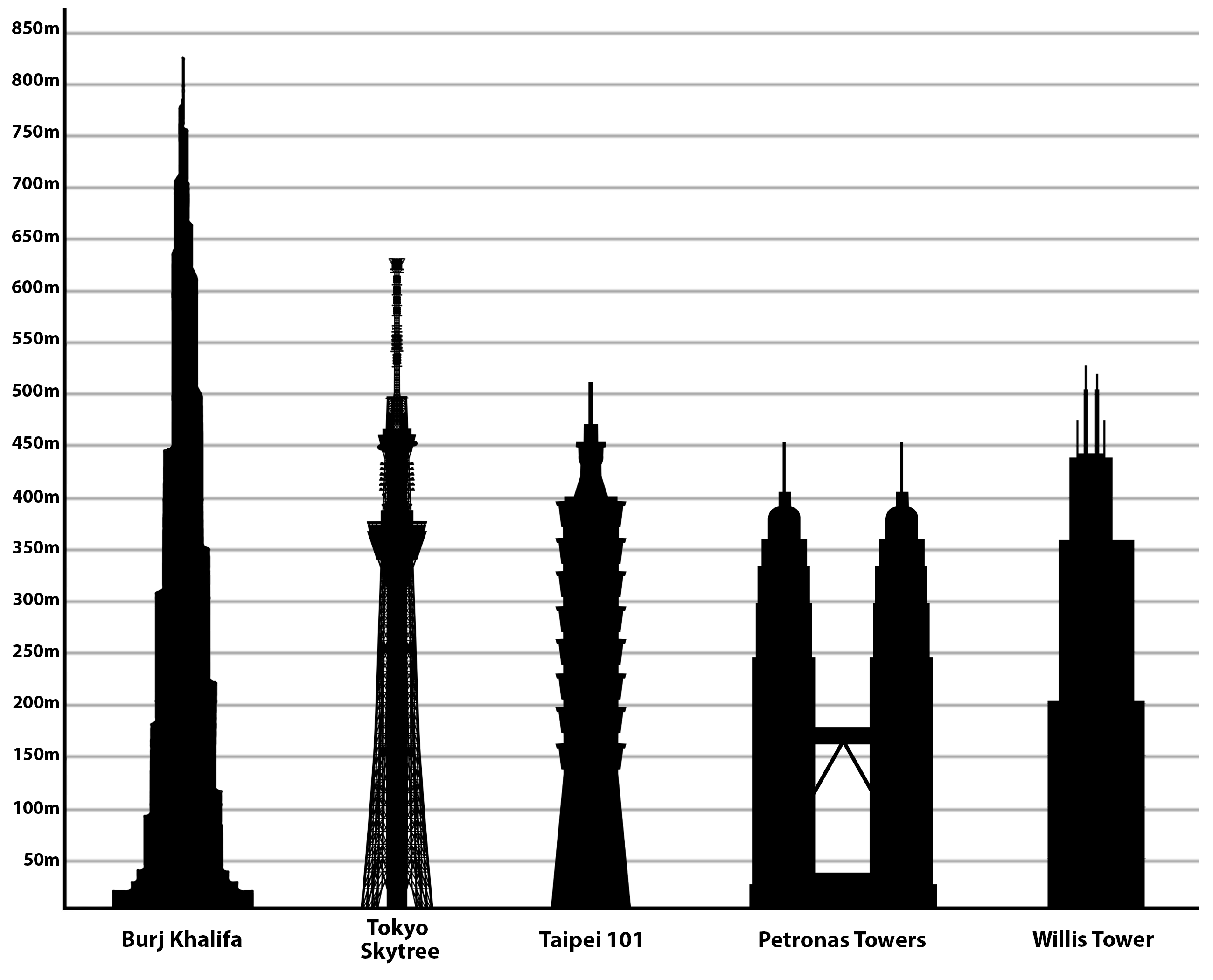 Tallest office buildings in the world; Used data from .